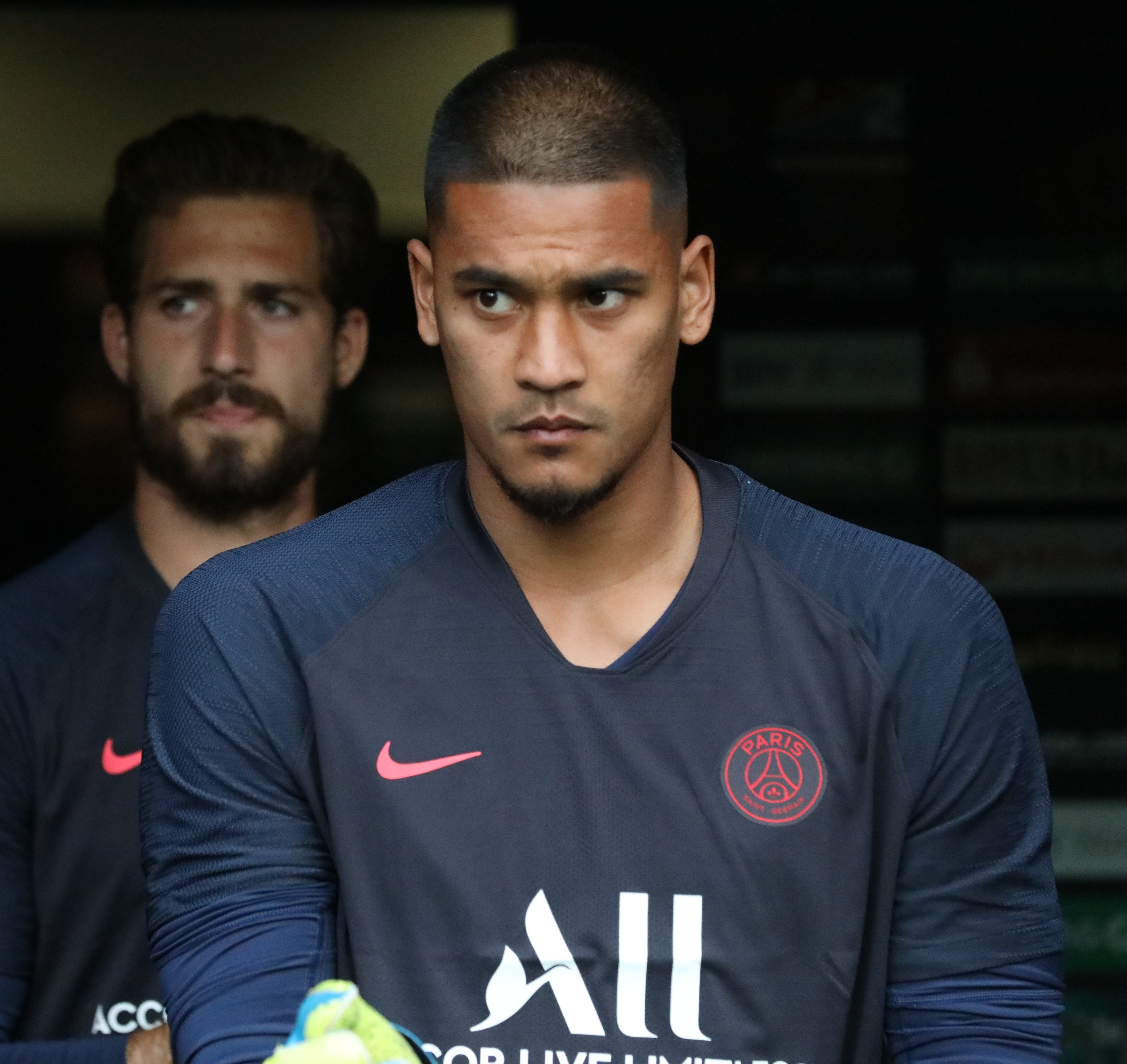 Test game, 17th July 2019: SG Dynamo Dresden vs. Paris Saint-Germain 1:6 (0:3)